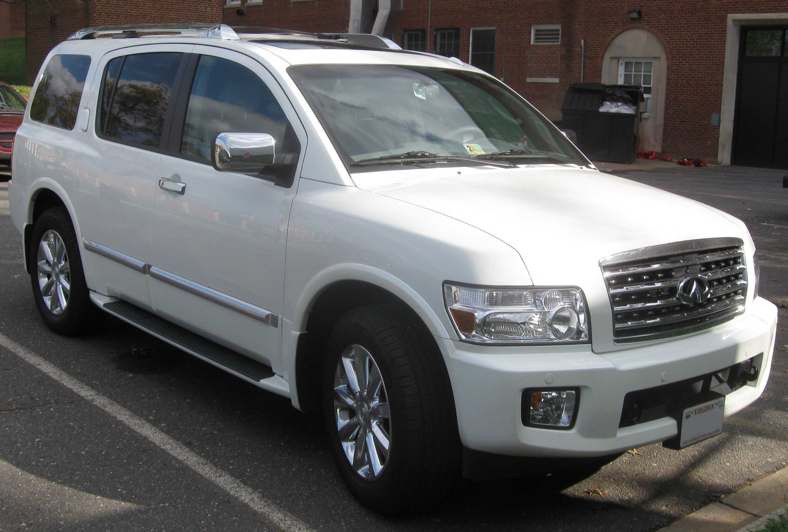 2008 Infiniti QX56 photographed in College Park, Maryland, USA.